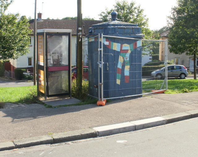 Blue former police box, Chepstow Road, Newport Situated on the south side of Chepstow Road, close to the Hawthorn Avenue junction. Police boxes were previously used by officers on the beat for communication, and were immortalised by Doctor Who's time travelling TARDIS. With the advent of personal radios in the 1970s most were demolished, leaving the 1930s Somerton box the last one in Newport. But concrete cancer is causing concrete in the structure to crack, so it has been fenced off for safety reasons. It is hoped the damage can be reversed, with the box refurbished as a city tourist attraction.